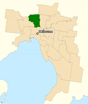 This image incorporates data that is: © Commonwealth of Australia (Australian Electoral Commission) 2009 Division of Wills 2010